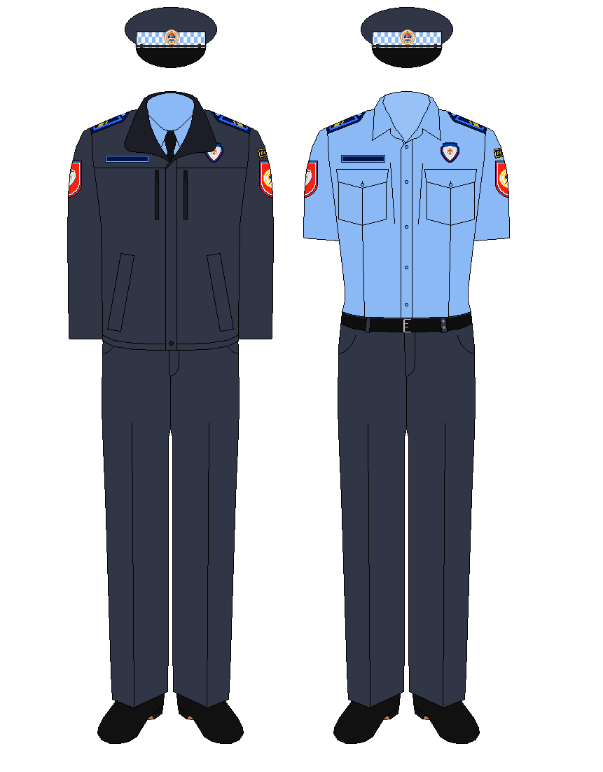 Male uniform of police officers of Police of Republika Srpska first-time presented on February 2018. On left is winter uniform and on right is summer uniform. Српски (ћирилица): Мушка униформа полицијских службеника Полиције Републике Српске представљена први пут у фебруару 2018. године. С лијеве стране је зимска униформа, а с десне љетна униформа.